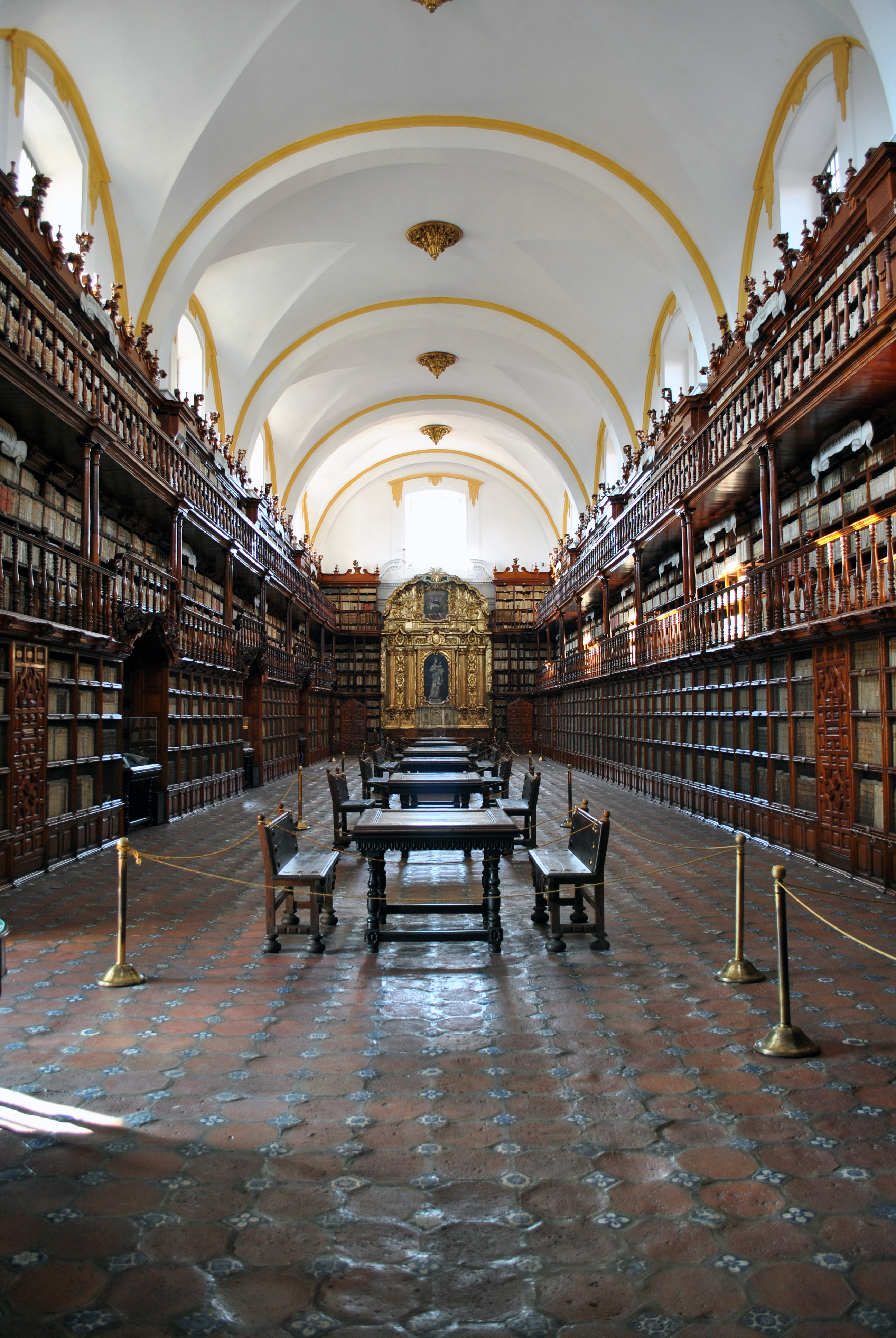 Palafoxiana Library in the city of Puebla, Puebla state.